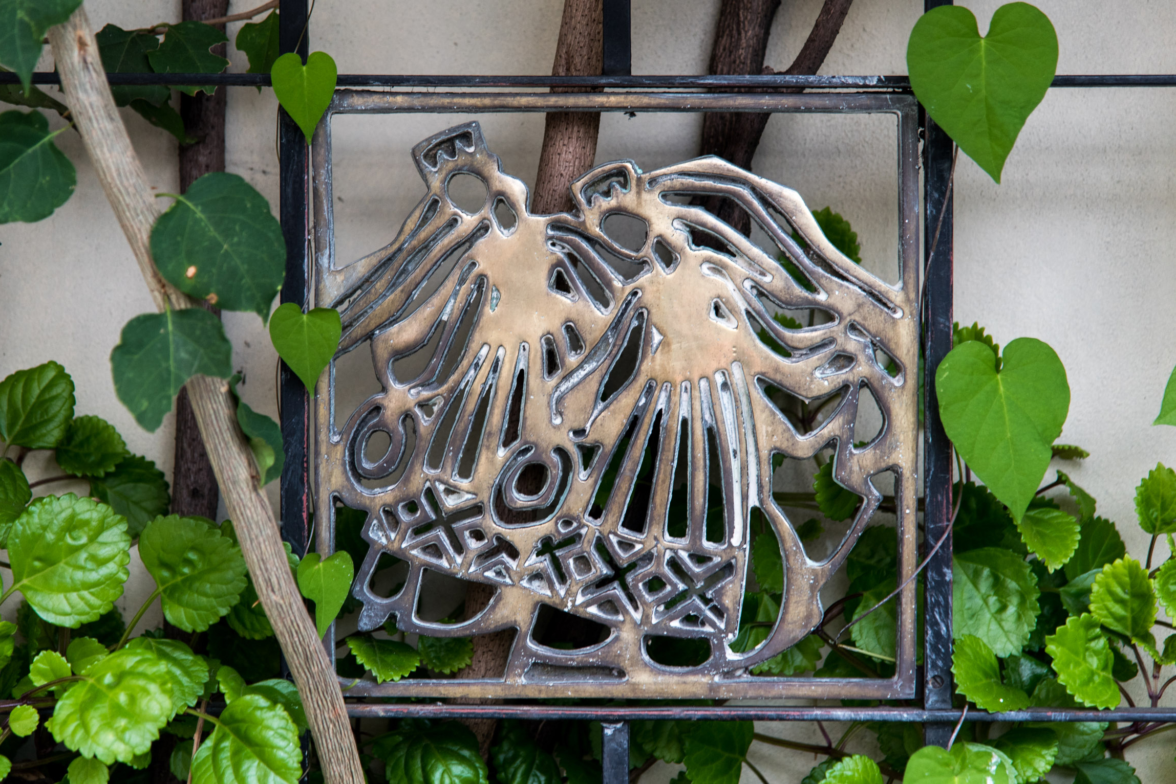 Artworks of A. Stanevičius. Argentina. Photo by Berta Tilmantaitė